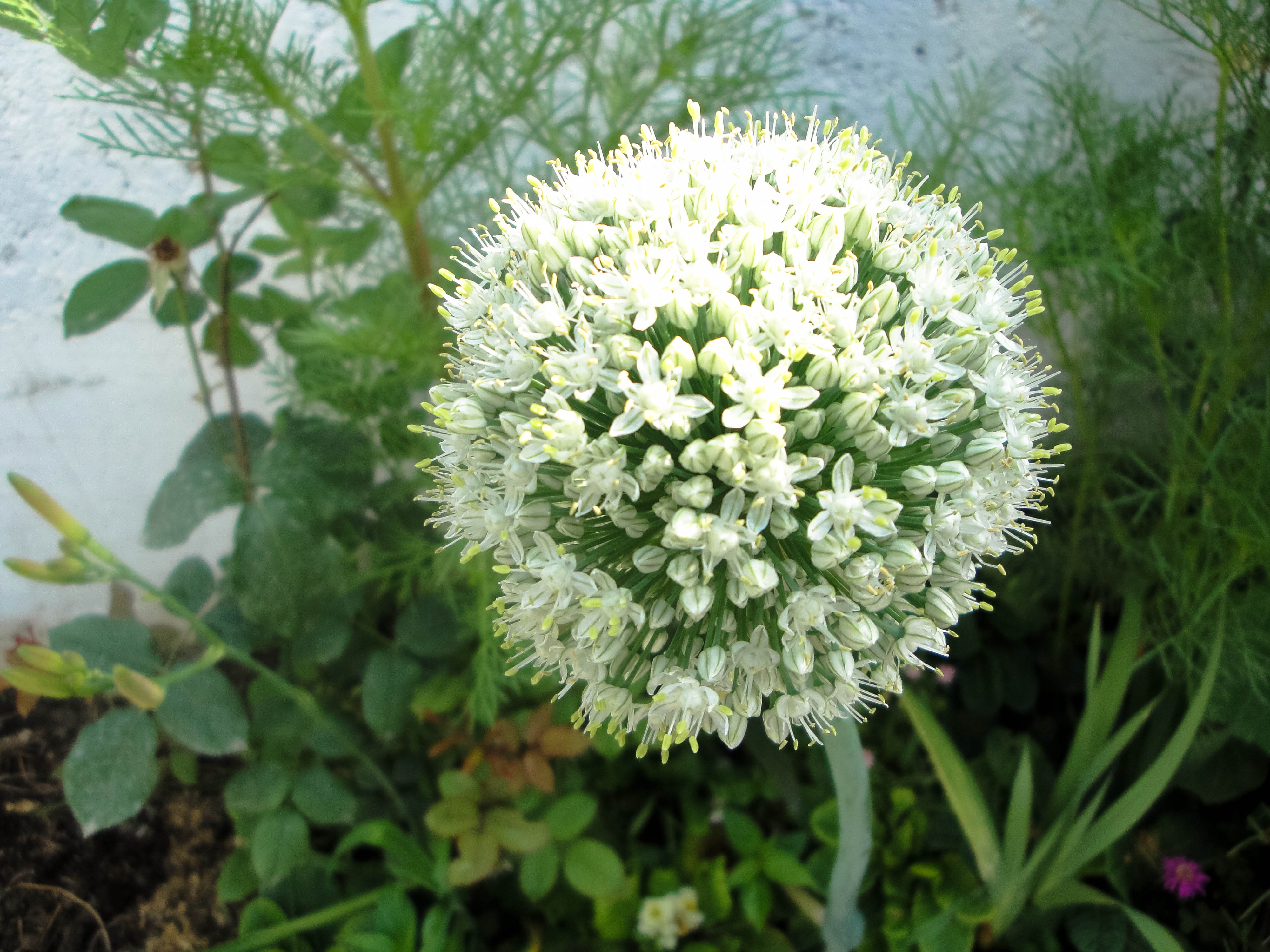 Allium cepa, Alliaceae, Garden Onion, flowers, Amol, Iran.